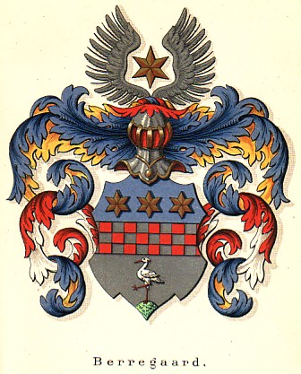 Coat of arms of the Berregaard family